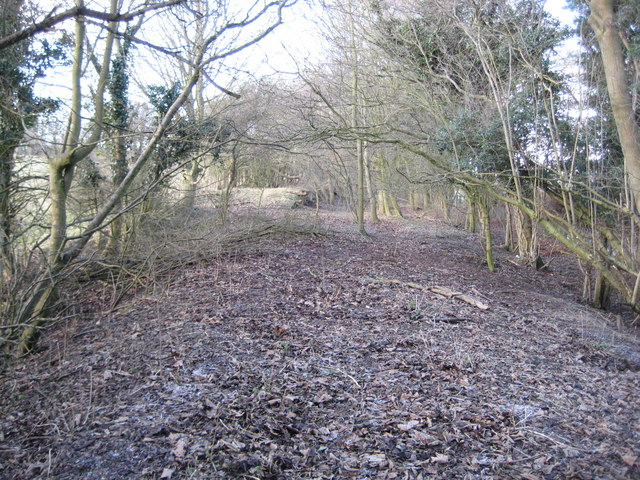 Fifty years to the day, bar one, since the last passenger train passed here on the Lambourn Valley Railway on 4 January 1960, the raised area on the left of the former trackbed is the platform and all that remains of the former Stockcross and Bagnor Halt railway station that opened in 1898. Even in Victorian times it was difficult to see the purpose of the station. Stockcross is about a mile away up a hill accessed by a narrow lane, while Bagnor is also about a mile away across the valley of the River Lambourn in the opposite direction and accessed only by a footpath, otherwise about two miles by road. Woodspeen is and was only a hamlet with a dozen or so residences. Railway traffic was always light and the station was unmanned from 1905 onwards and redesignated as a halt in 1934. Although the whole line to Lambourn closed in 1960 to regular passenger and freight traffic, occasional military goods trains for RAF Welford used the track intil 1973. The rails were eventually lifted around 1976.